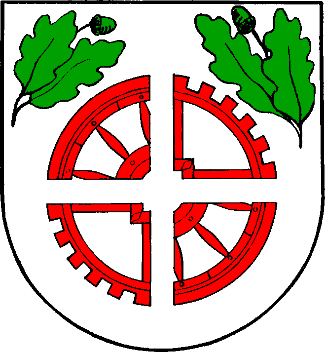 Coat of arms of the municipality Osdorf in Schleswig-Holstein, Germany.